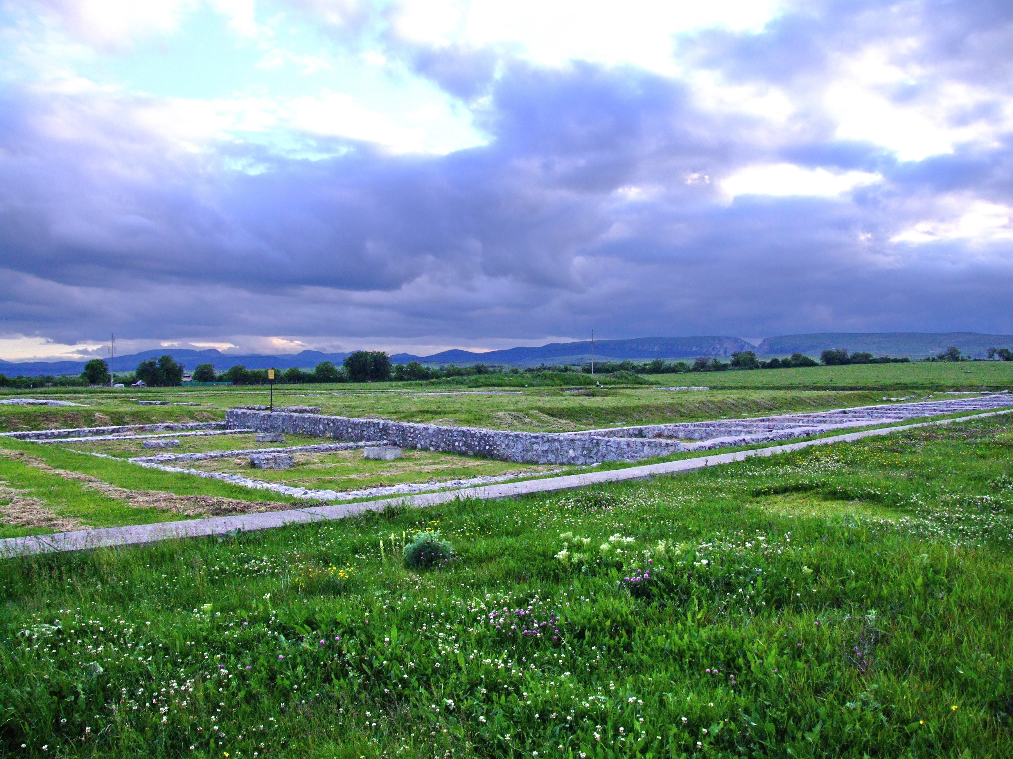 Roman Castra Potaissa built after the conquest of Dacia by Trajan in 106 AD, located in modern Turda, Romania